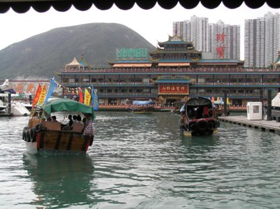 (Benjwong, Took this image myself at the floating restaurant in Hong Kong from the boat in 2006, )